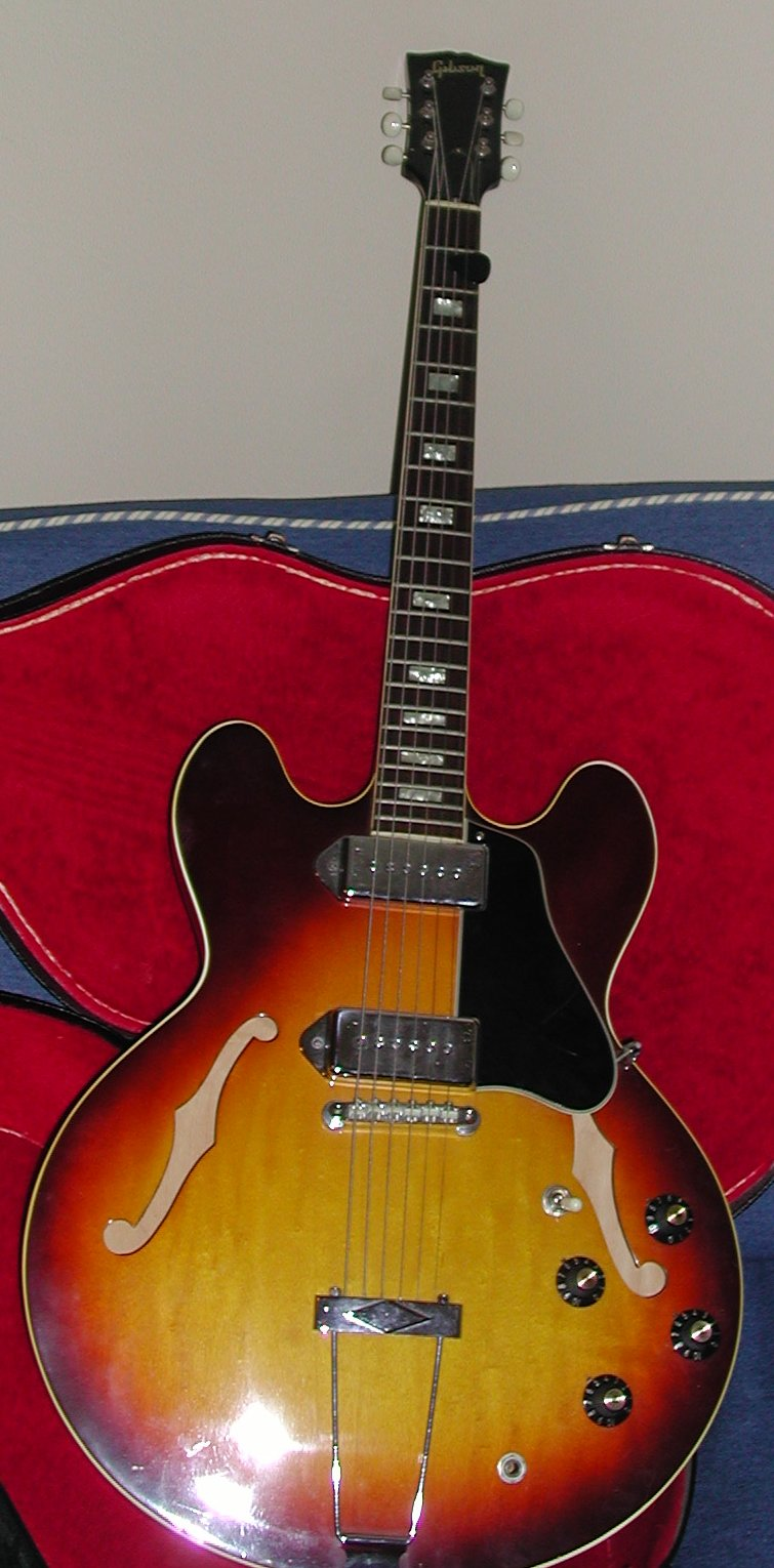 Gibson ES-330TD (1958-1970s / reissued from custom shop) TD means Thinline acoustic, Dual-pickup